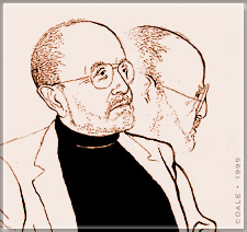 Drawing of Harold Brodkey for The New Yorker, 1995